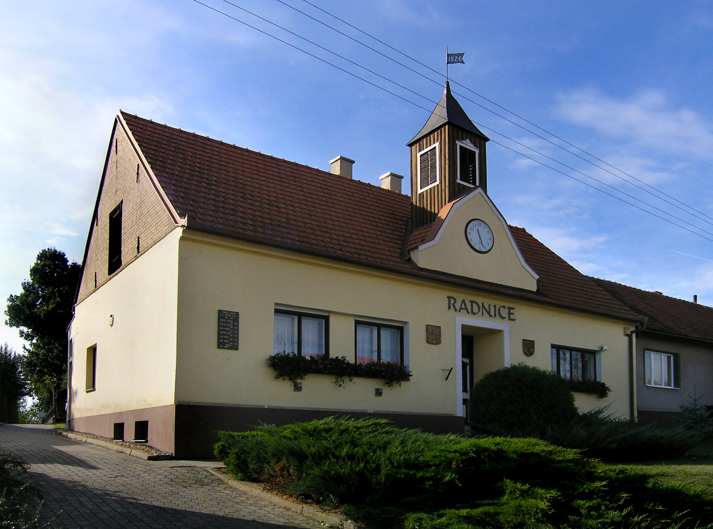 Municipal office in Kašnice, Czech Republic